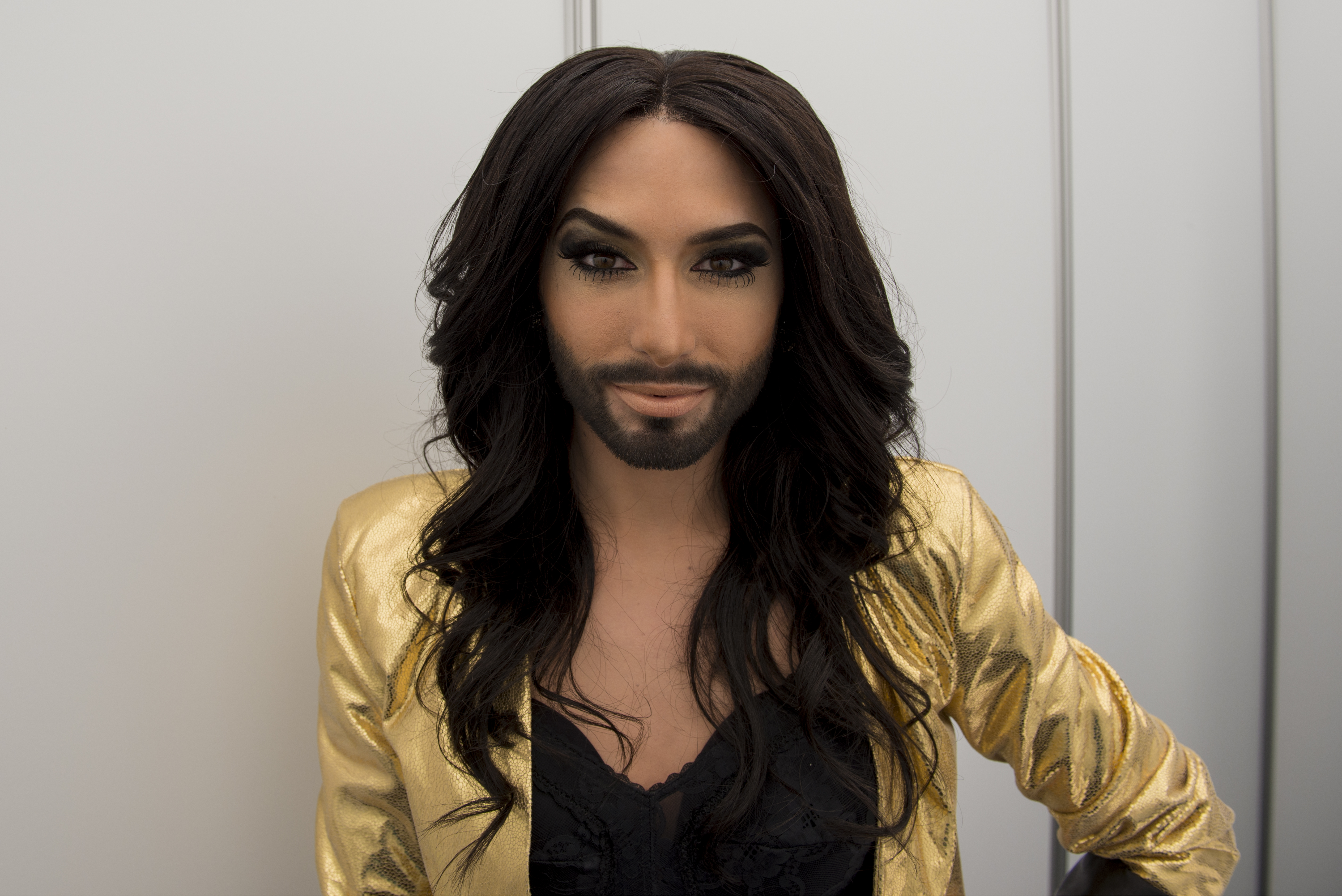 Conchita Wurst at a Meet & Greet during the Eurovision Song Contest 2014 Copenhagen. (Help translate this text)